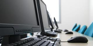 Computer